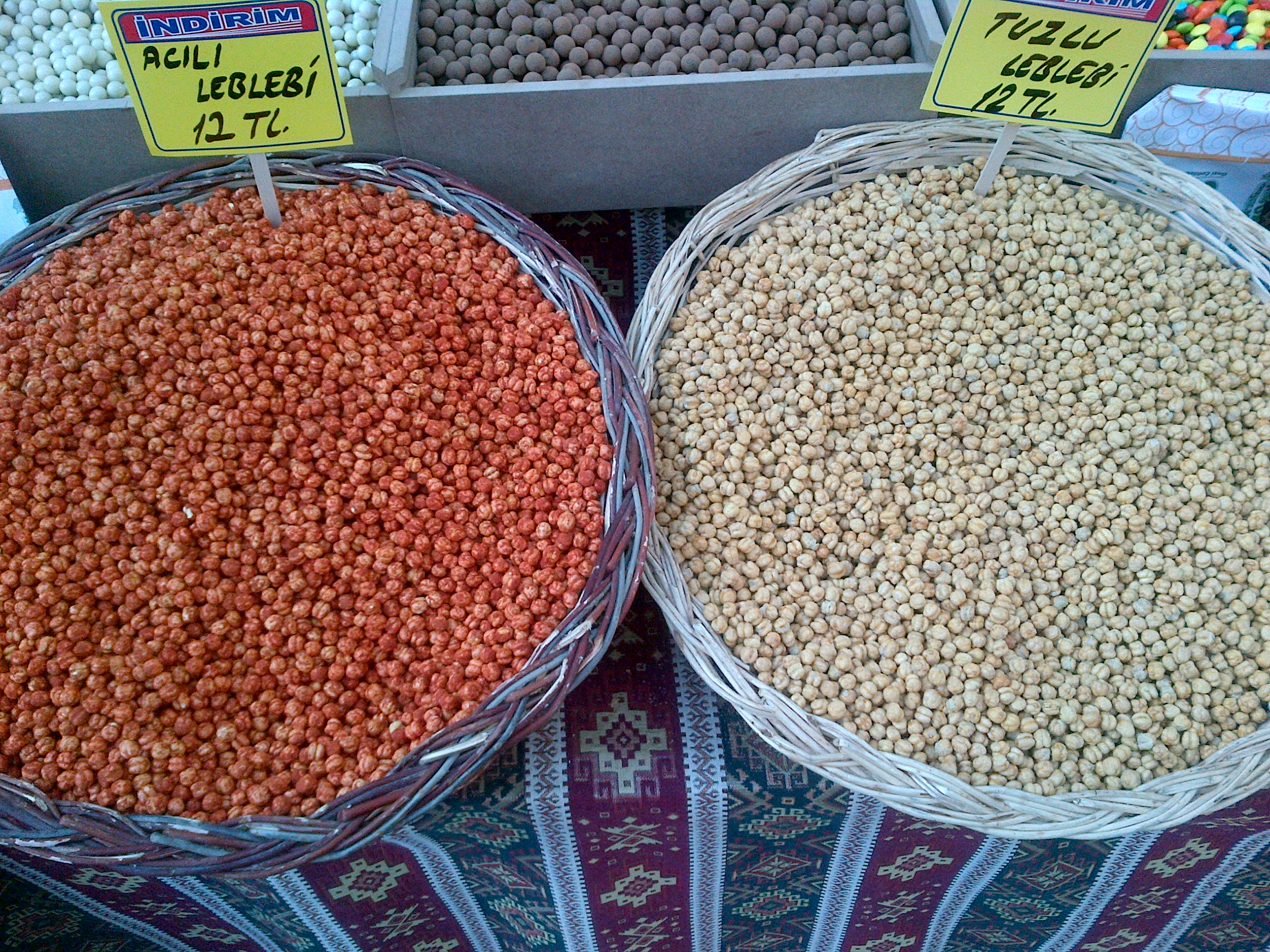 Hot leblebi salty leblebi, snacks from Turkey